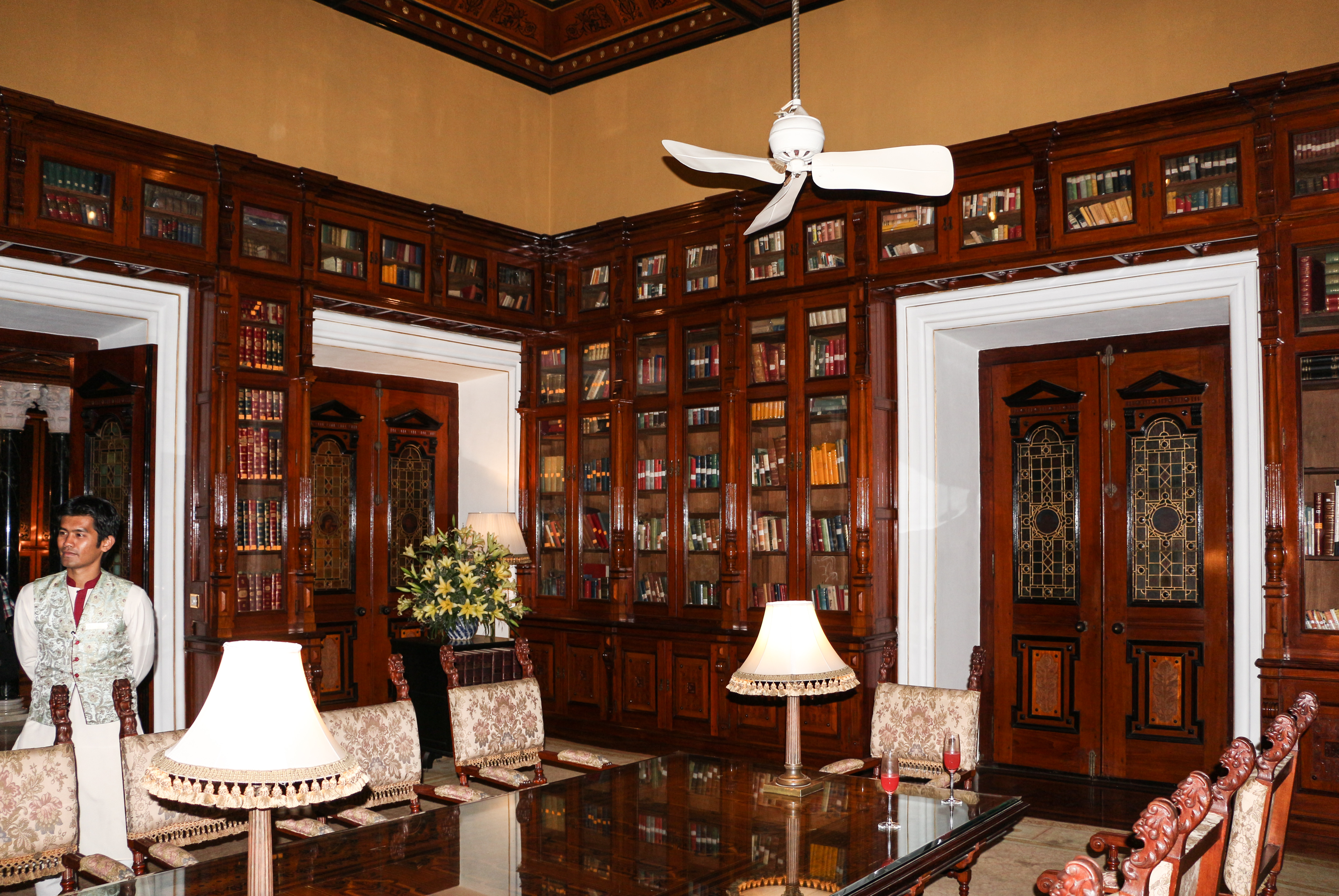 The library of Falaknuma Palace, Hyderabad, India